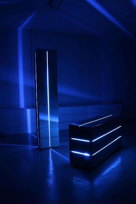 Light artwork by Mounty R. P. Zentara, shown at the Lightart Biennale Austria 2010.